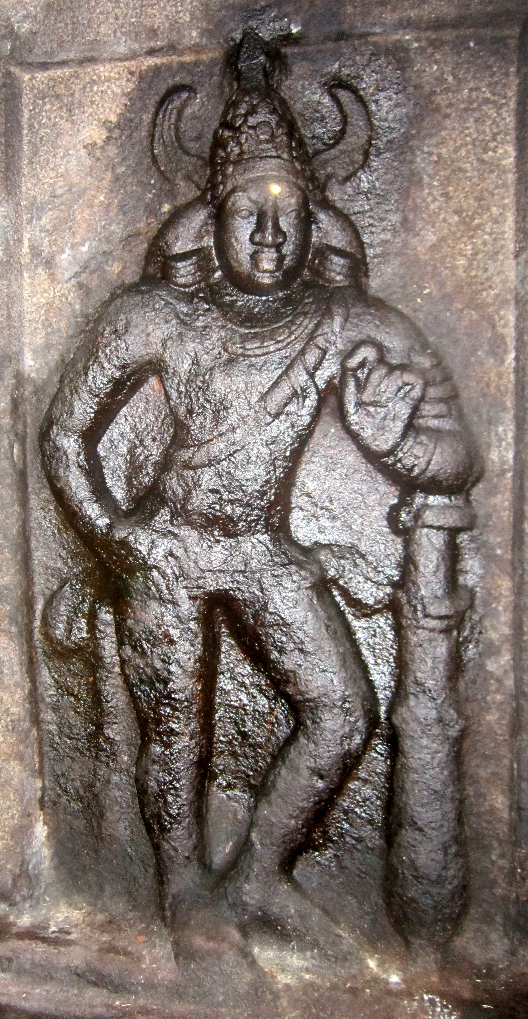 dvarapala